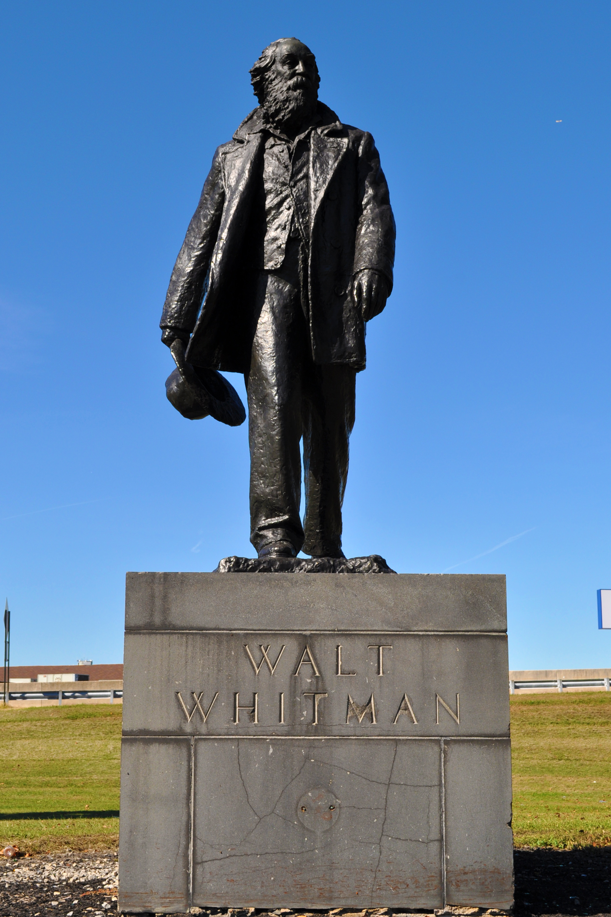 Walt Whitman Monument, Jo Davidson Sculptor - 3100 S Broad St, Philadelphia PA